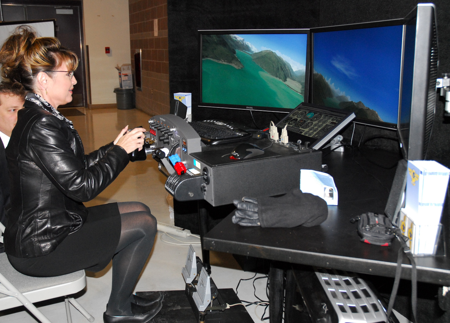 Fort Richardson, Alaska -- Governor Sarah Palin tests her flying abilities on one of the many flight simulators provided by the Medallion Foundation at Aviation Day. Aviation Day was developed this year to demonstrate some of the opportunities for aviation in Alaska. Cadets from STARBASE and the Alaska Military Youth Academy were able to learn about aviation from the lead organizations in aviation safety development, digital mapping, flight simulator development as well as tour Alaska National Guard rescue helicopters and a Civil Air Patrol glider.